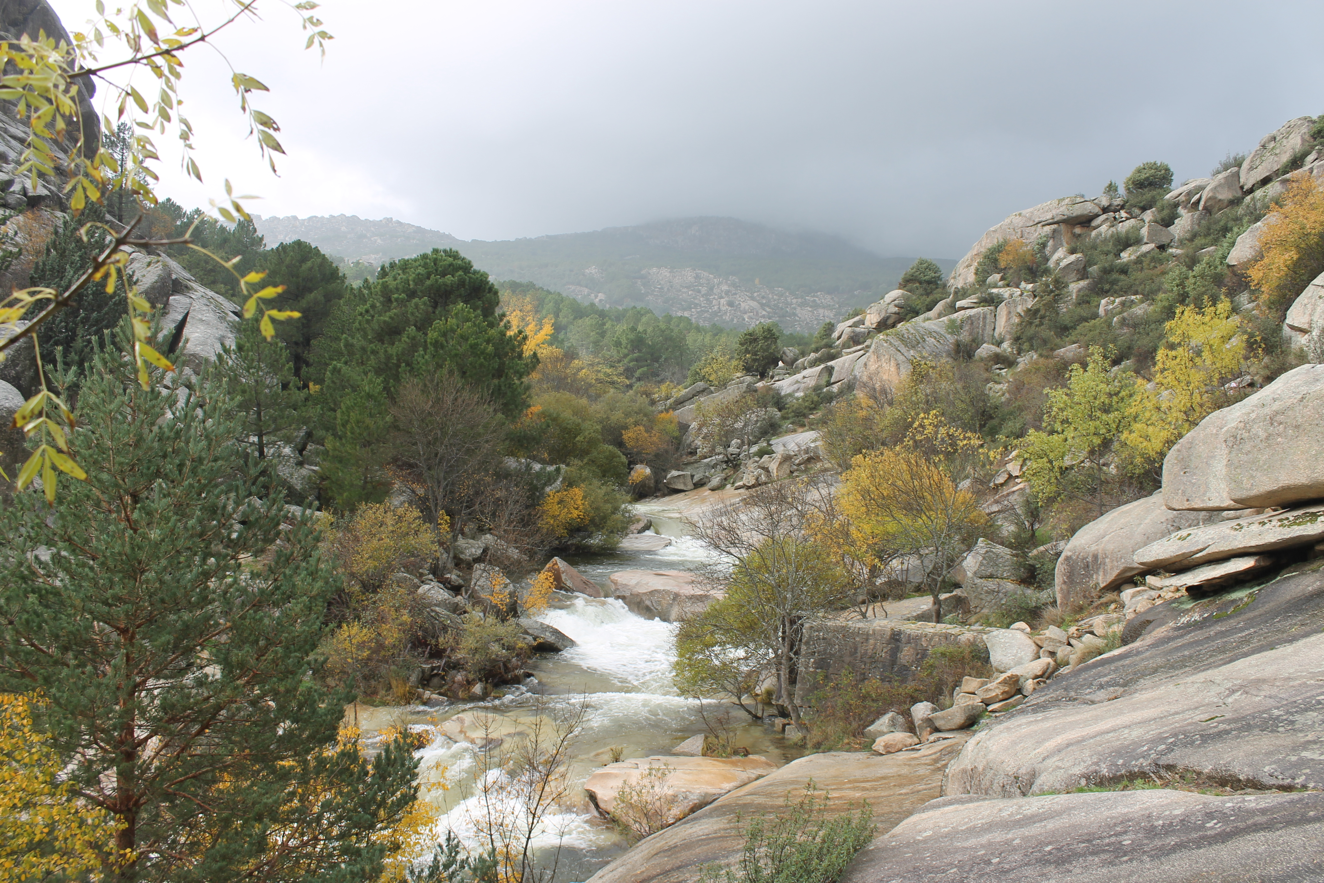 Manzanares river in Sierra de Guadarrama near Madrid